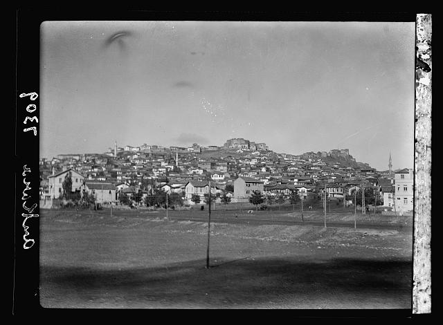 Turkey. Ankara as seeing from train approaching city 1935